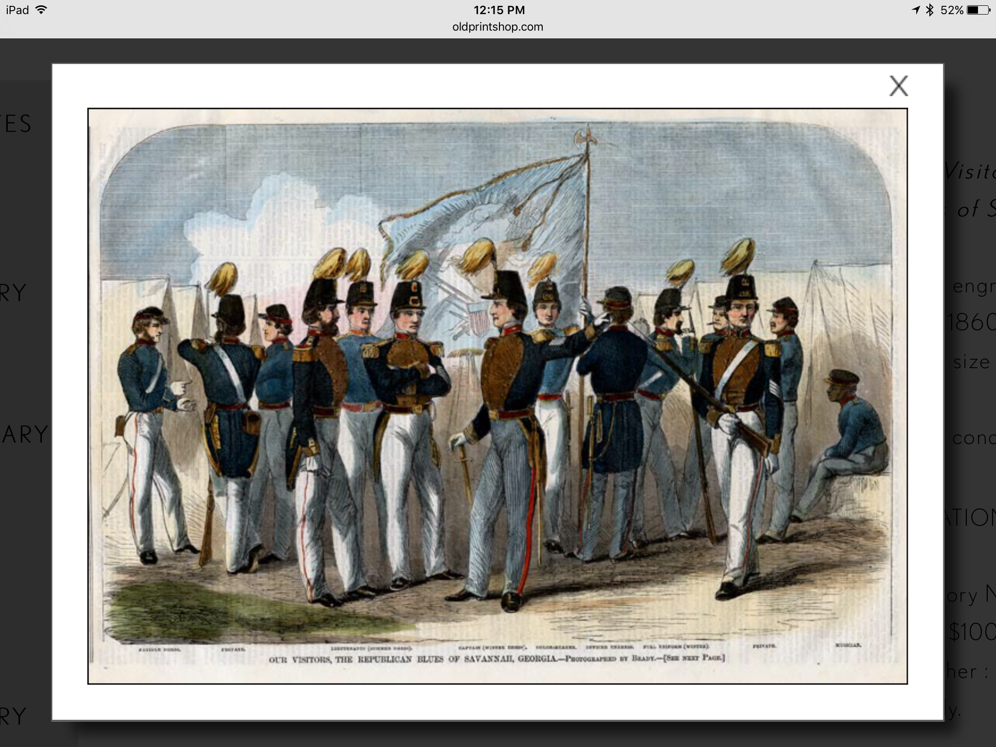 A wood engraving showing the Republican Blues of Savannah, Georgia uniforms in 1860. From Harper's Weekly, August 4, 1860. Note: The Republican Blues were a state militia company formed in Savannah, Georgia.